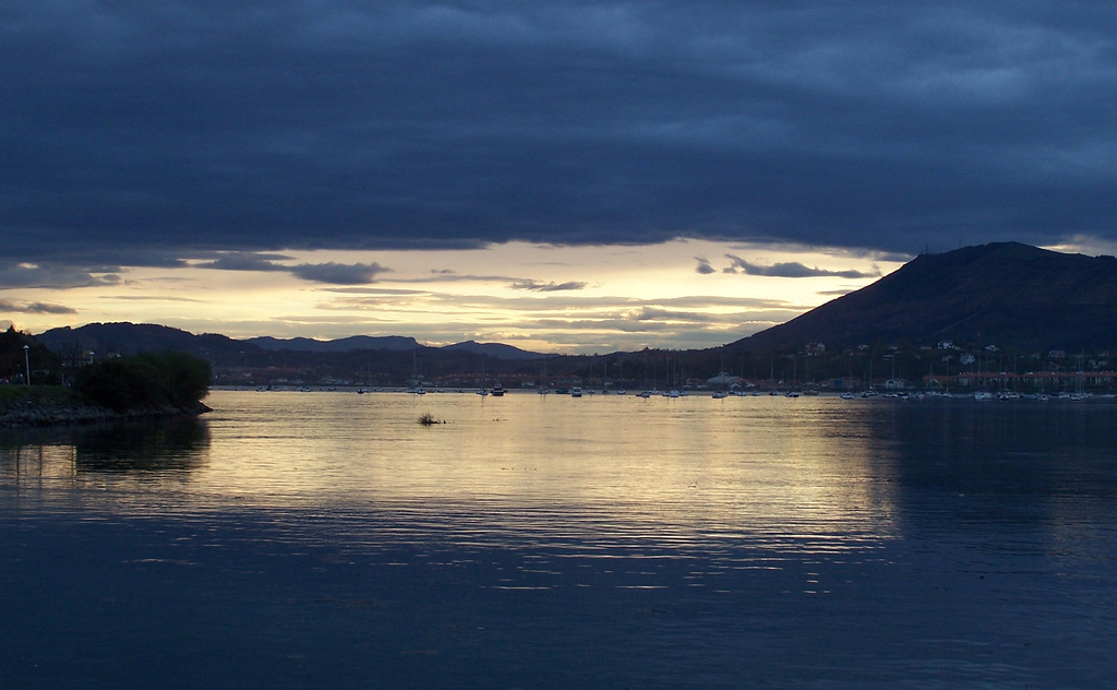 Hondarribia and Hendaia seen from the sea, in the Basque Country